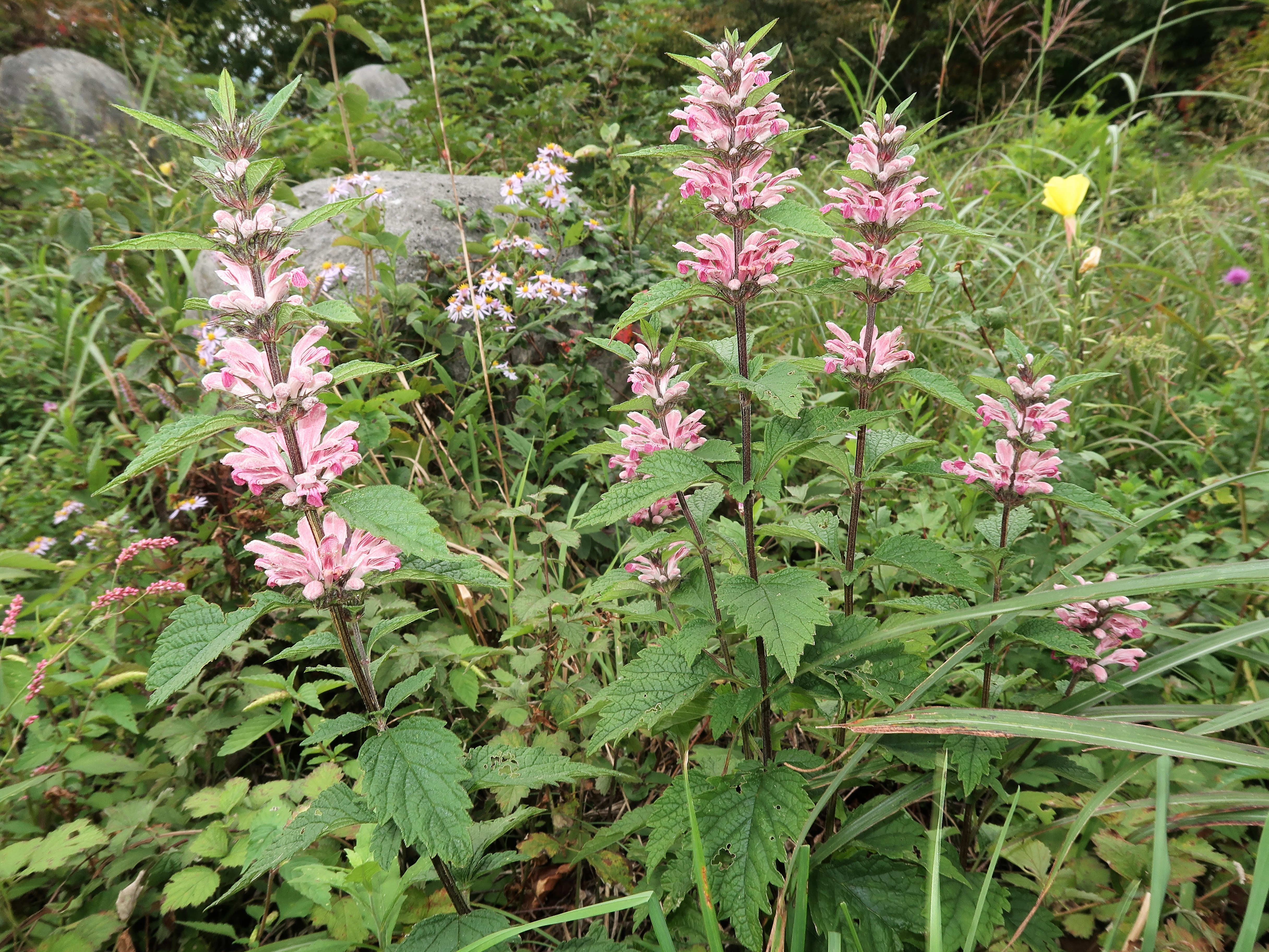 Leonurus macranthus, Naka-dori area, Fukushima pref., Japan